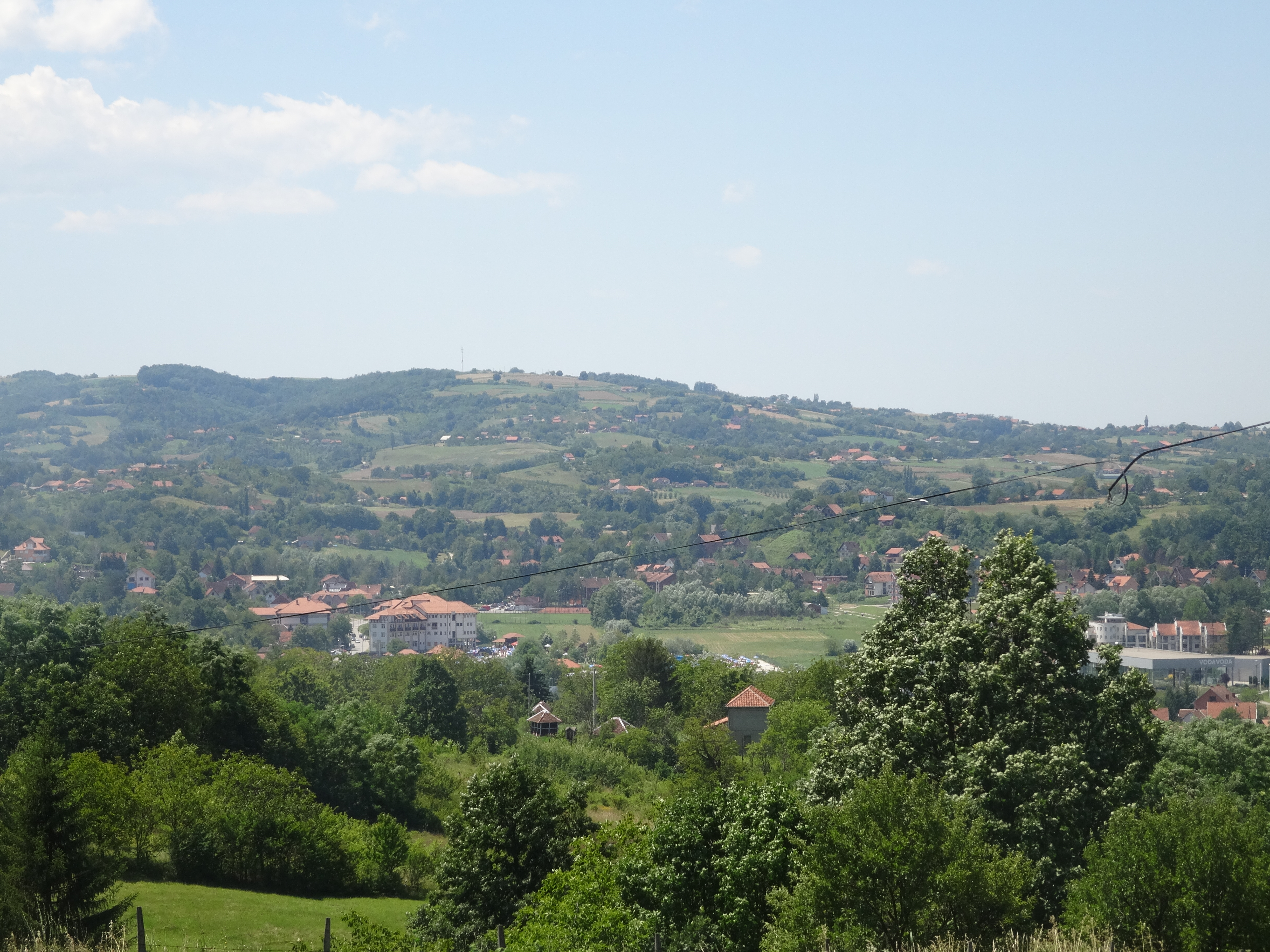 Veliševac, Houses in the village